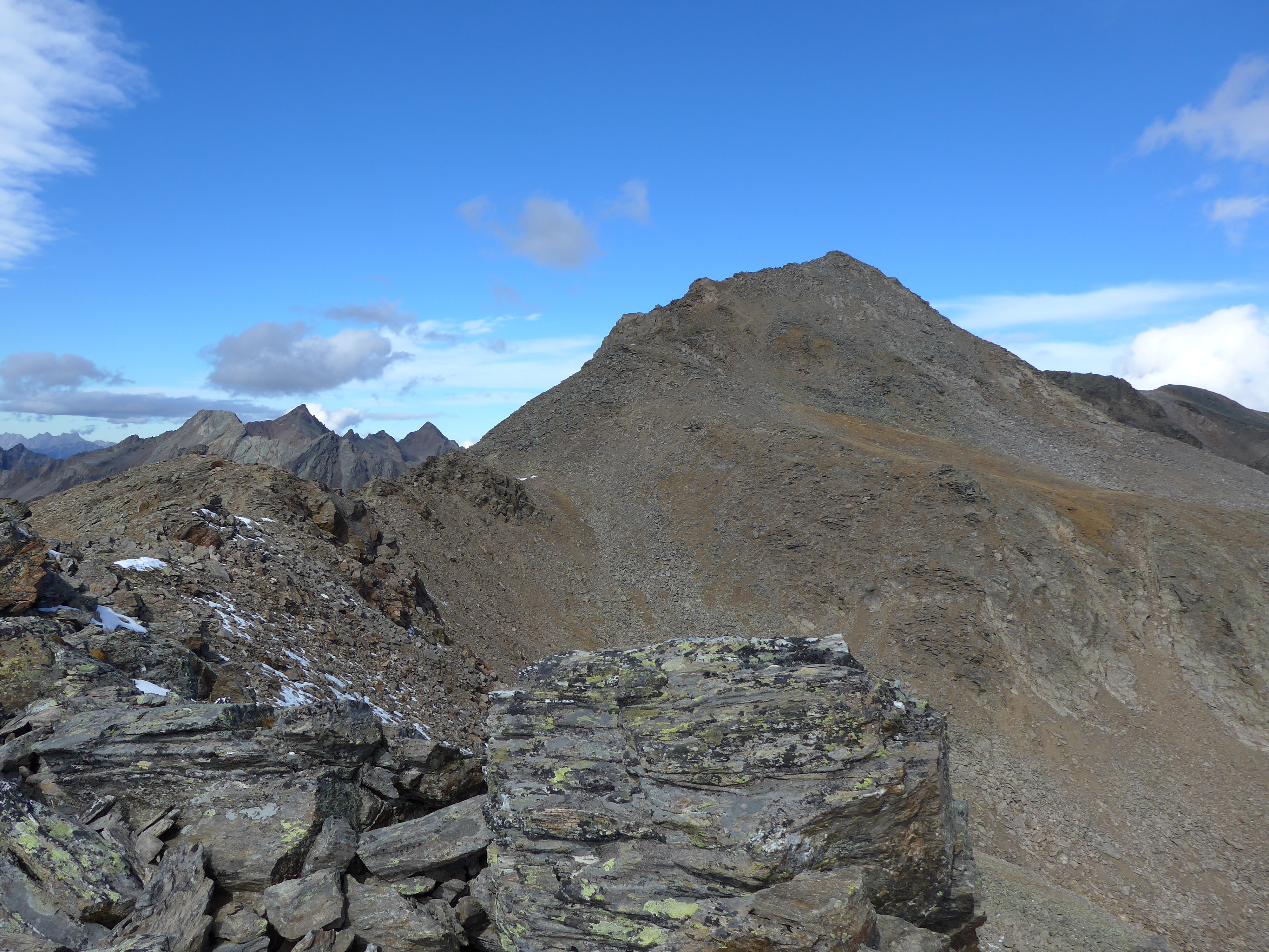 Gleirscher Rosskogel from south east